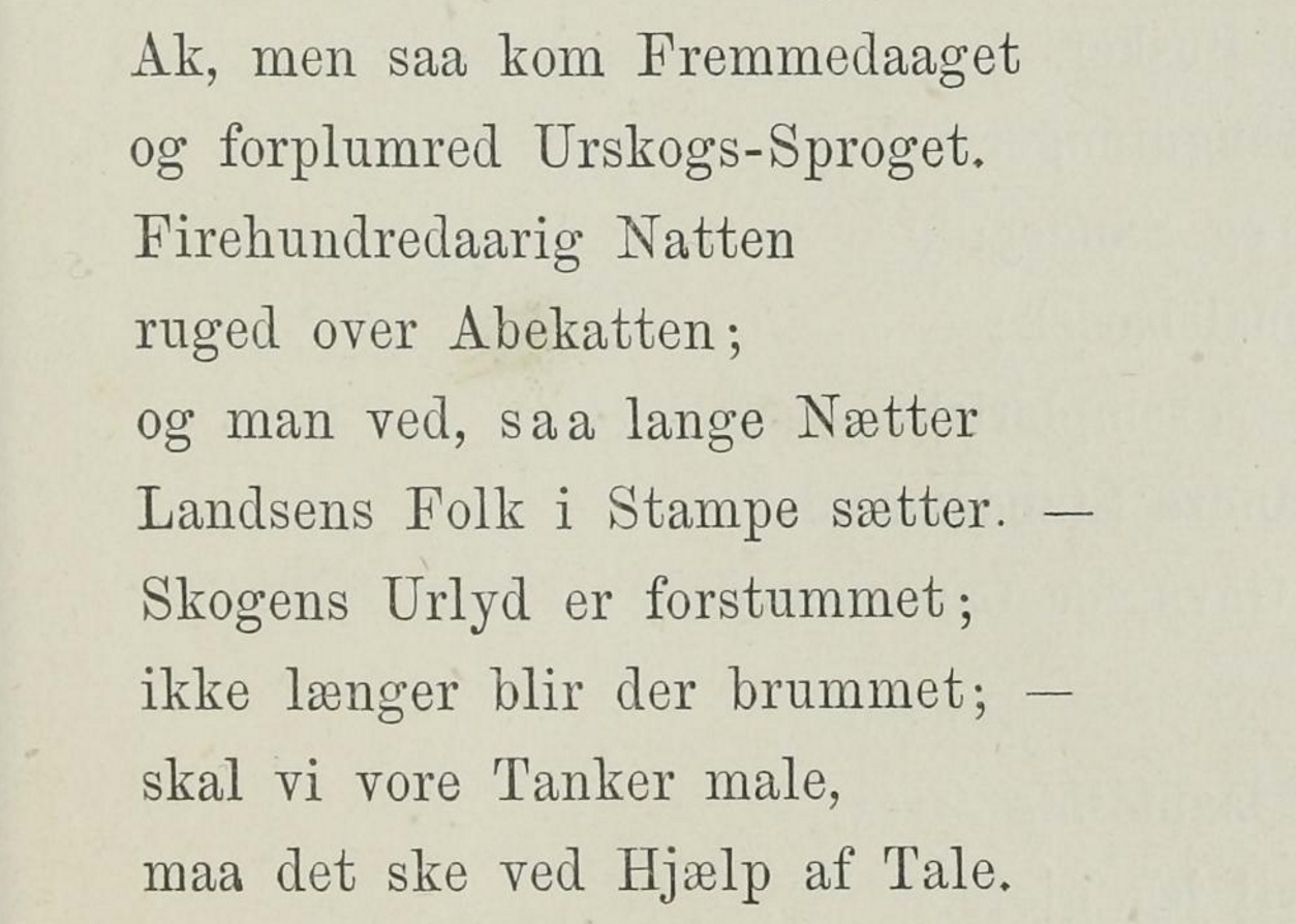 Facsimile from first edition of Ibsen's work Peer Gynt (in Danish/Norwegian)